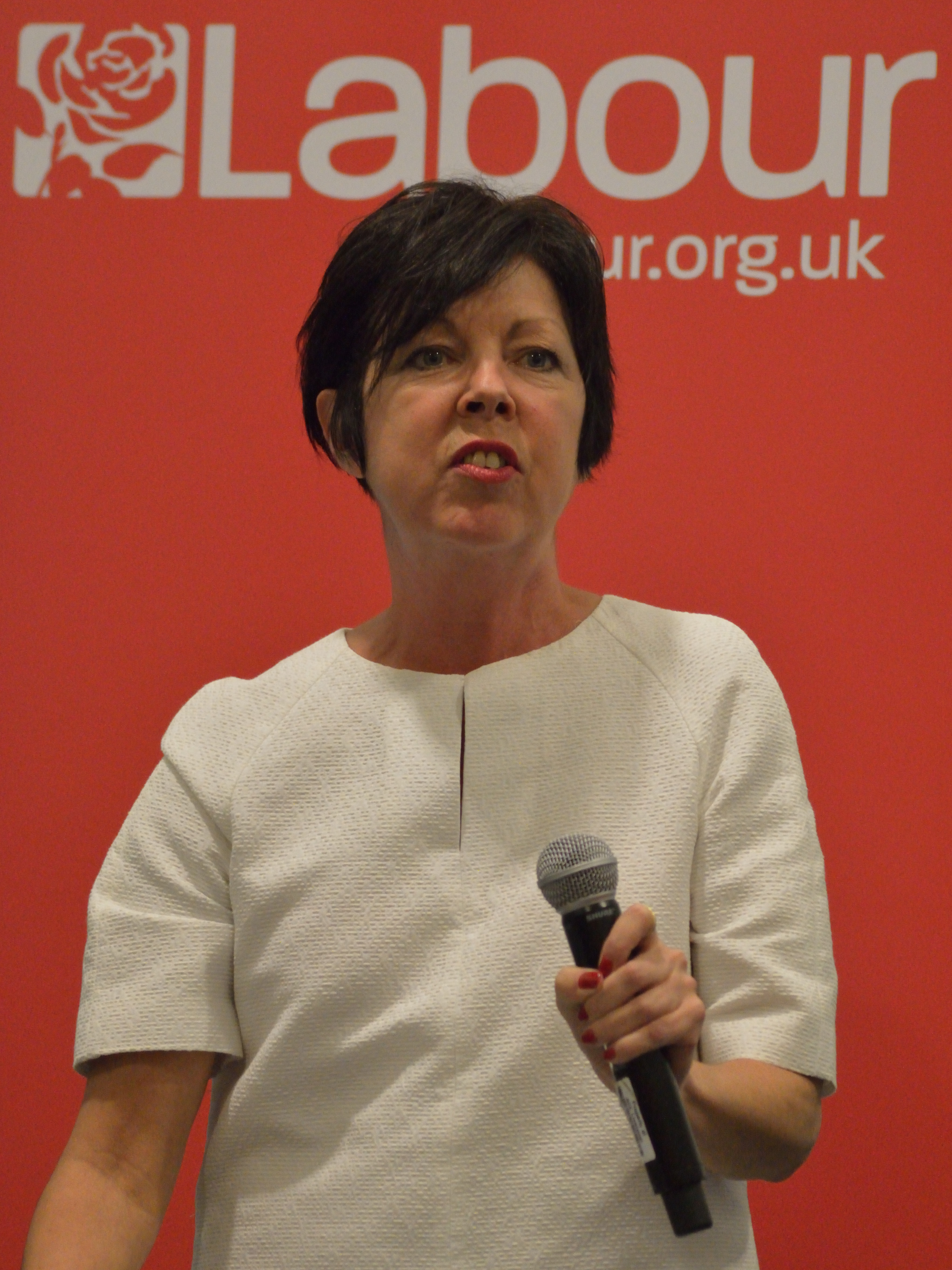 Theresa Griffin MEP at the 2016 Labour Party Conference in Liverpool, speaking at the Sustainability Hub Reception organised by the Socialist Environment and Resources Association (SERA).